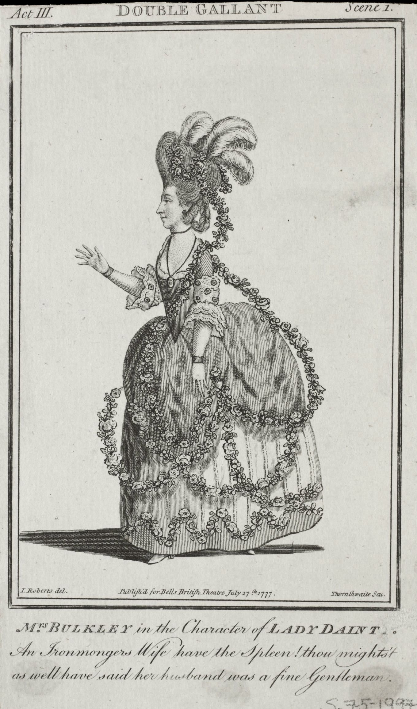 Engraving of actress and dancer Mary Bulkley (1747/8-1792) as Lady Dainty in Double Gallant, 1777. She was born Mary Wilford; her two married names were Bulkley and Barrisford. She was known professionally as Mrs Bulkley. Her biography is here.